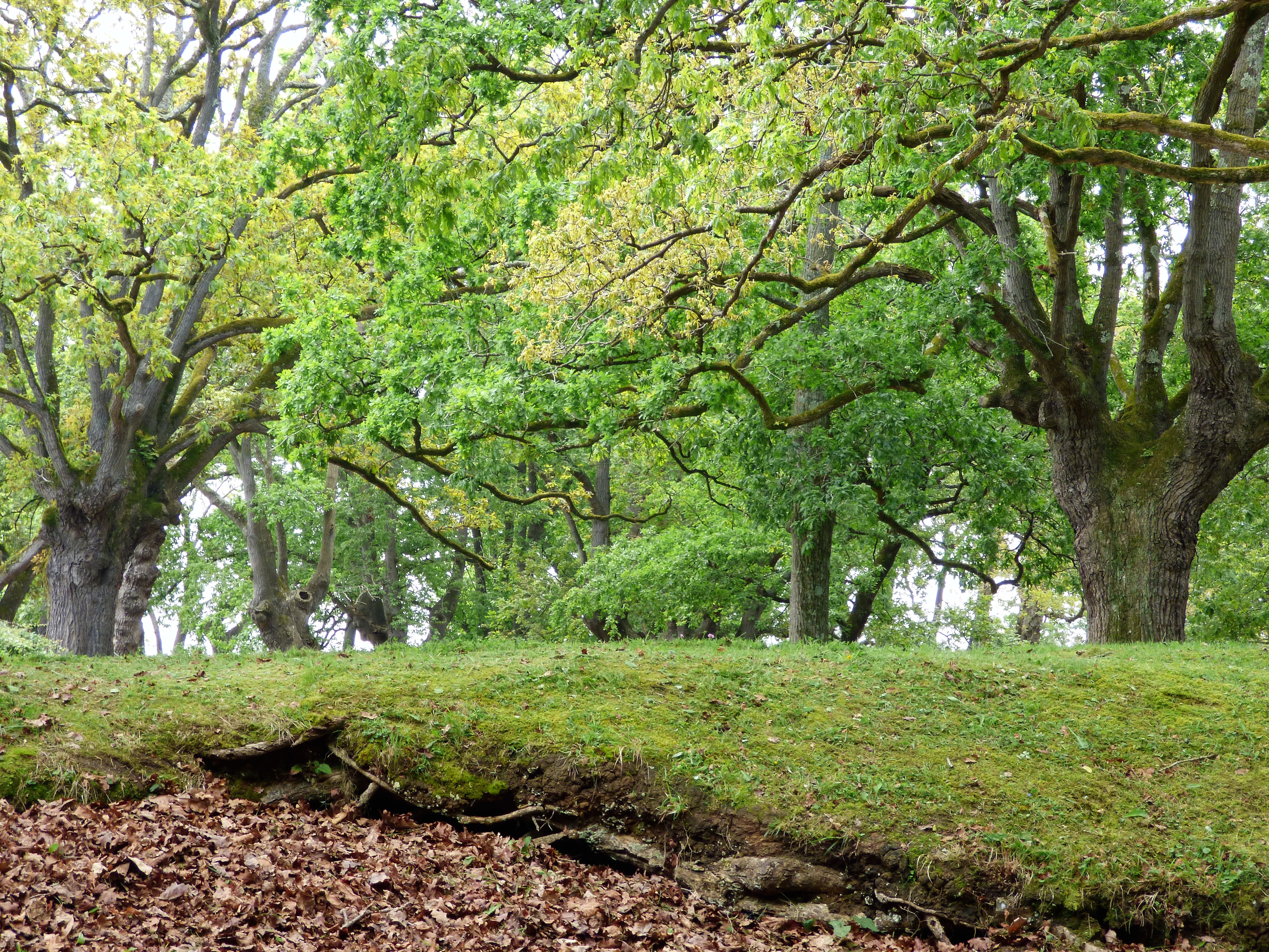 This is a photography of a Site of Community Importance in Spain with the ID: ES1200038. Natura2000 entry, EEA entry